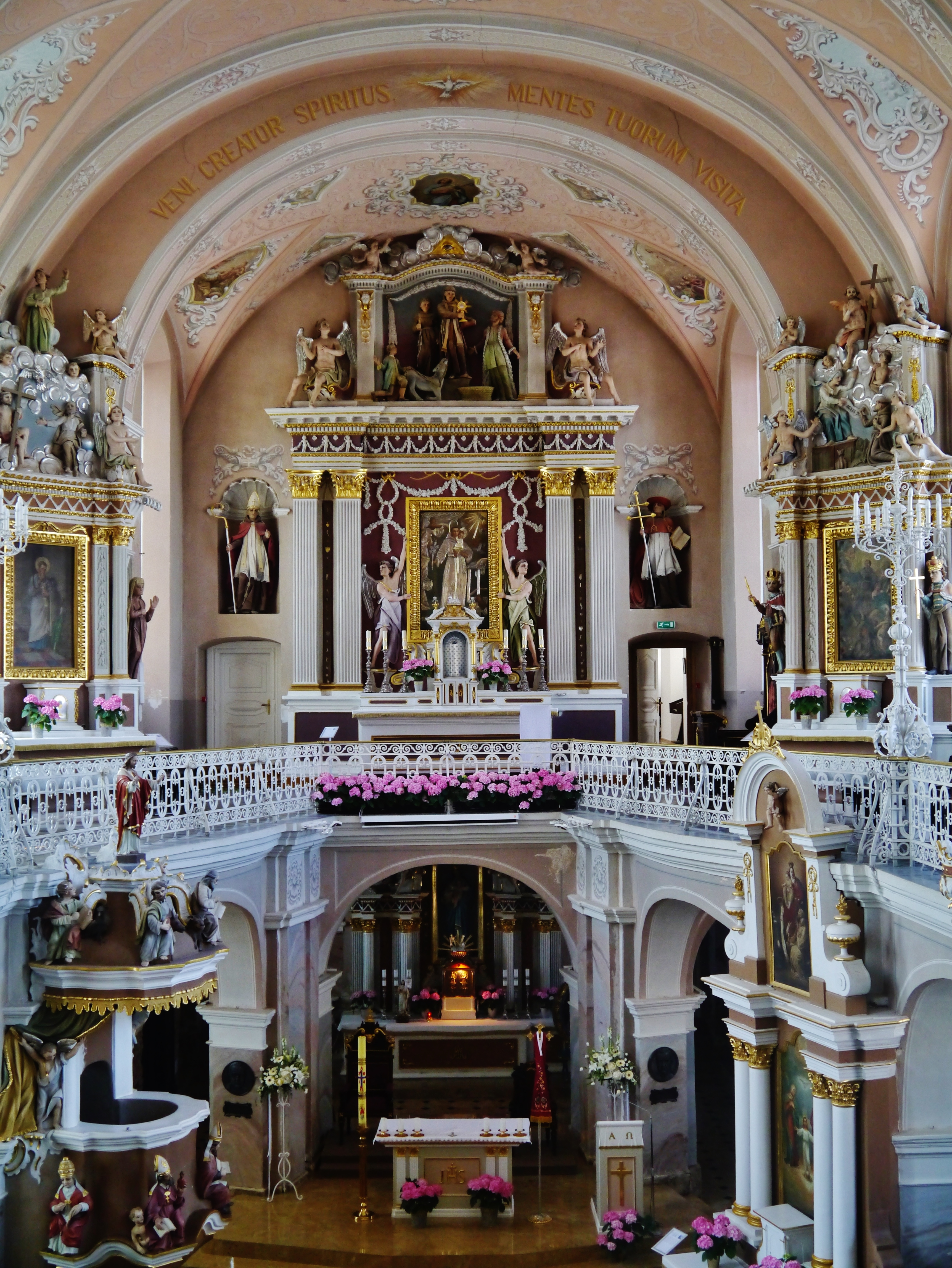 Nave of the Cathedral of St. Anthony of Padua, Telsiai, Lithuania